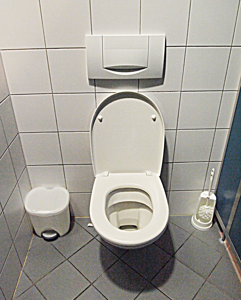 Toilet at the building between Germany and Austria in the mountain Zugspitze.This photograph was taken with an Olympus E-PL1